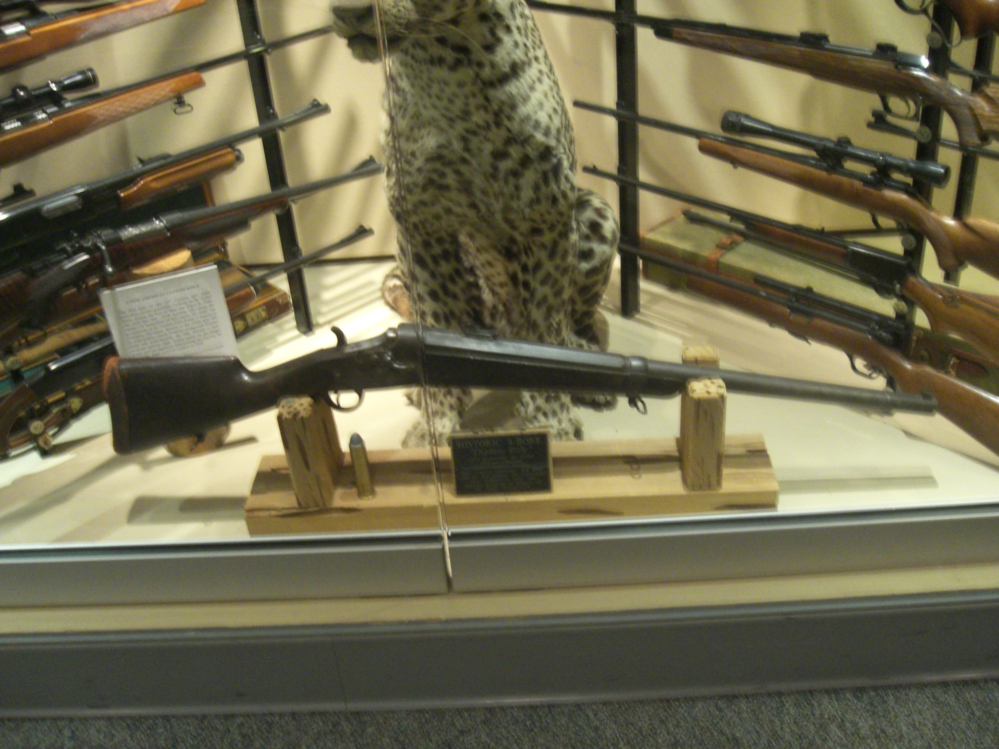 The 4 bore elephant gun of Henry Morton Stanley. Taken at the National Firearms Museum